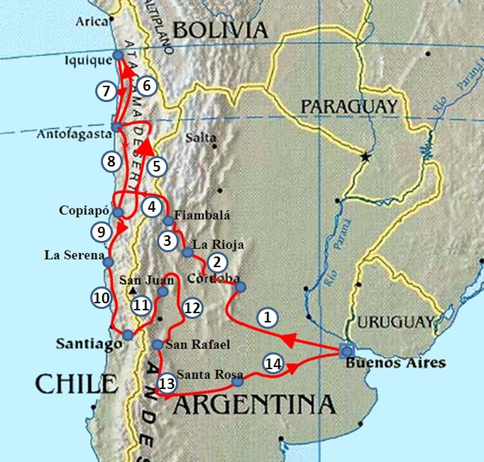 Rally Dakar 2010. Map with stages.